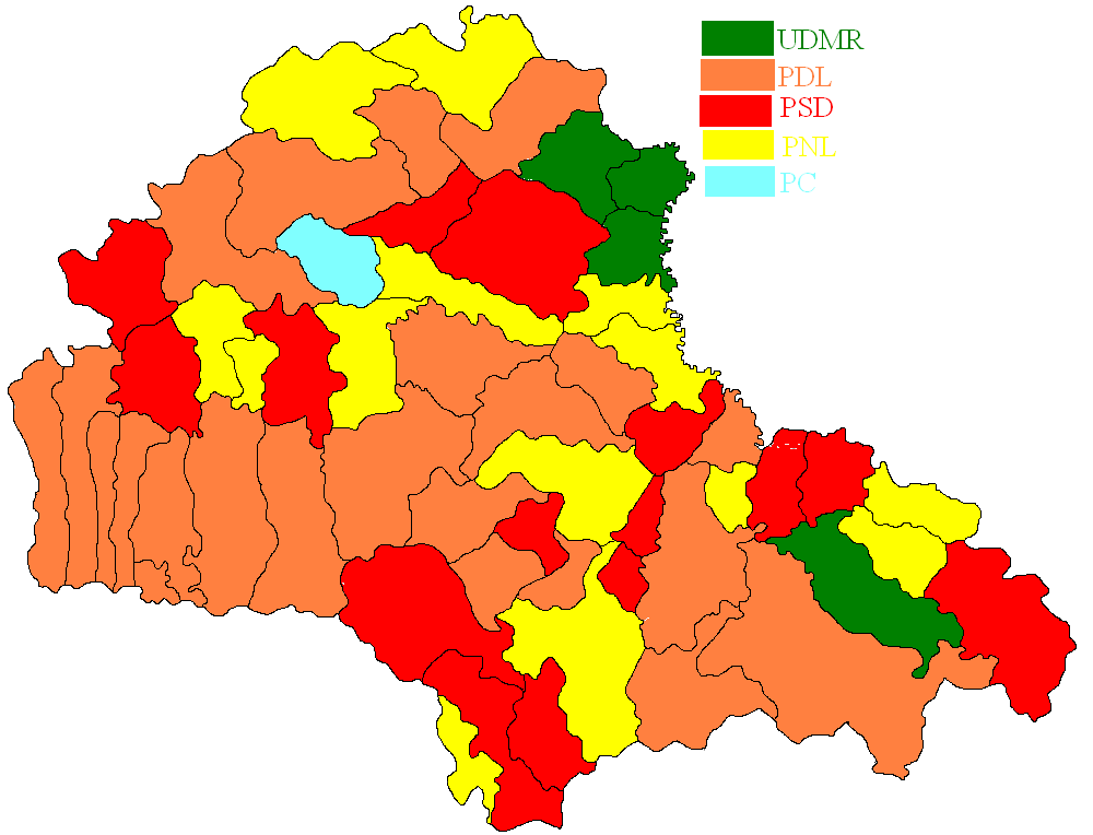 Harta Politica Brasov